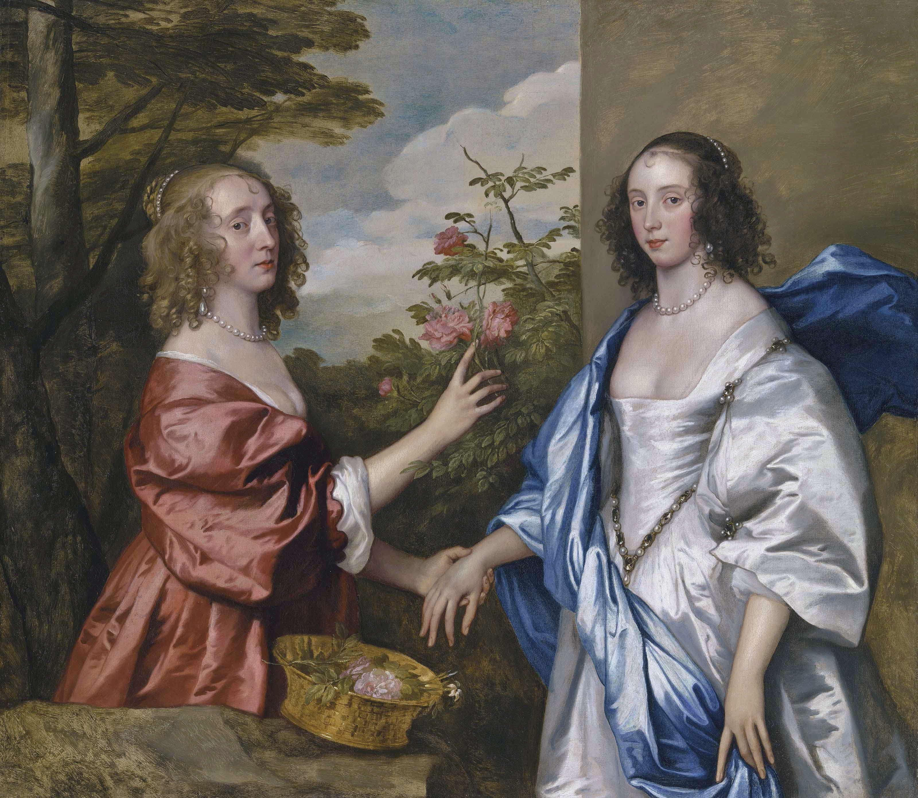 The Cheeke Sisters: Essex, Countess of Manchester (d. 1658), and Anne, Lady Rich (d. c. 1655) oil on canvas 127.7 x 149.8 cm